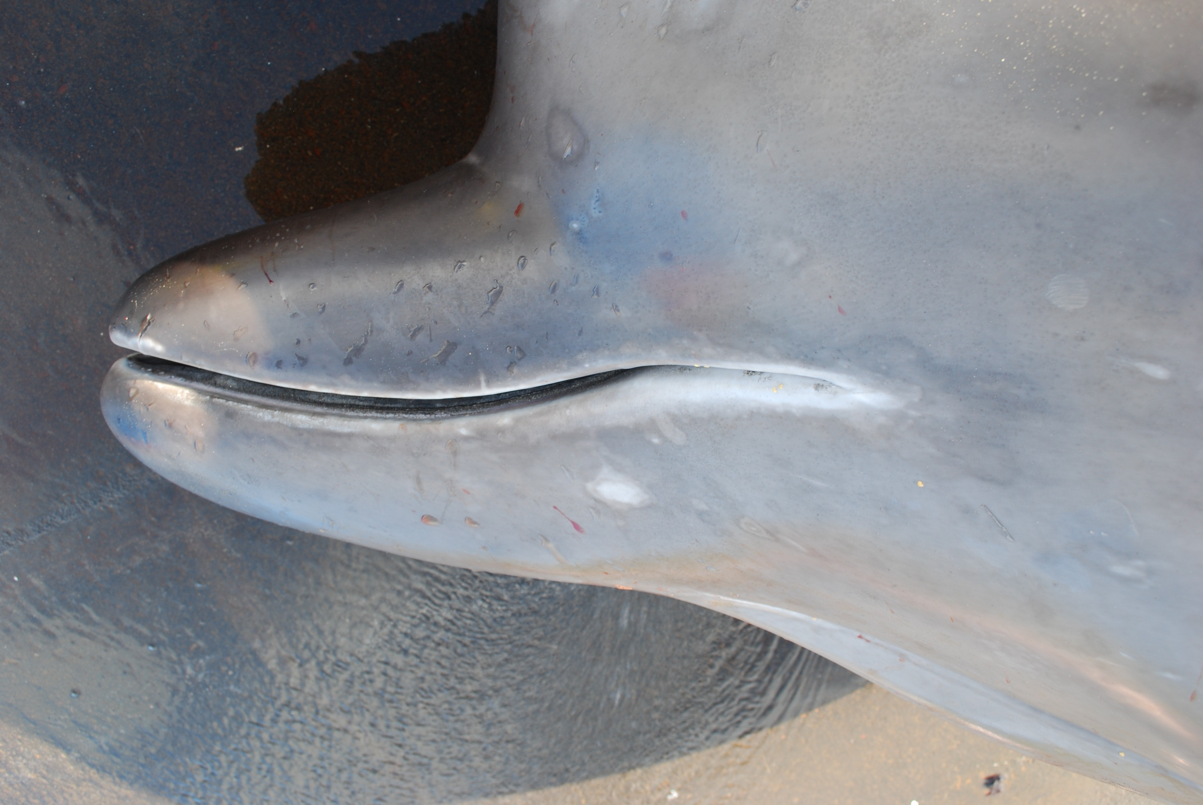 Northern Bottlenose Whale - Stranding in Nes- Hvalba - Faroe Islands